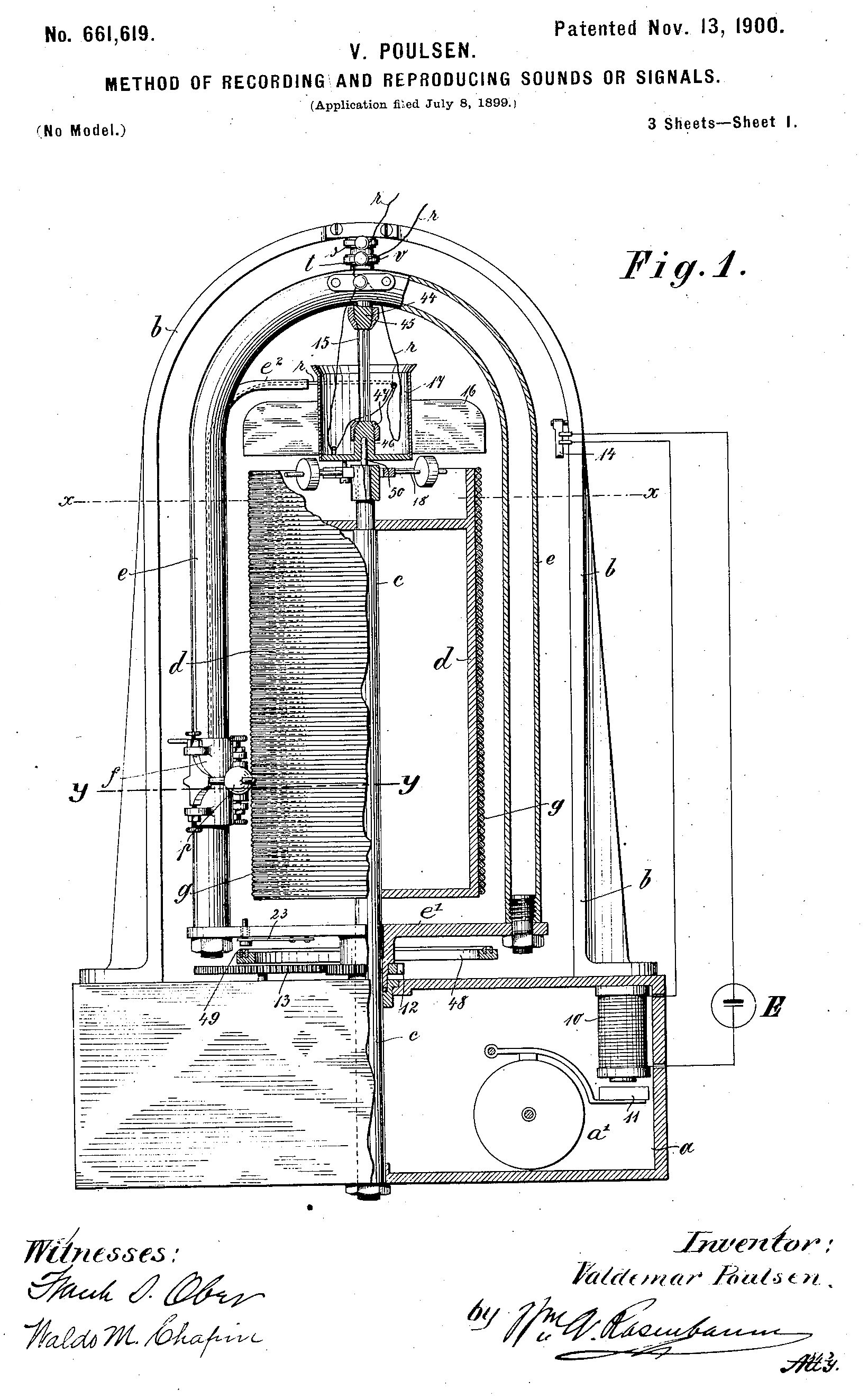 Figure 1 of United States Patent 661,619 by Danish inventor Valdemar Poulsen - the first magnetic recorder.